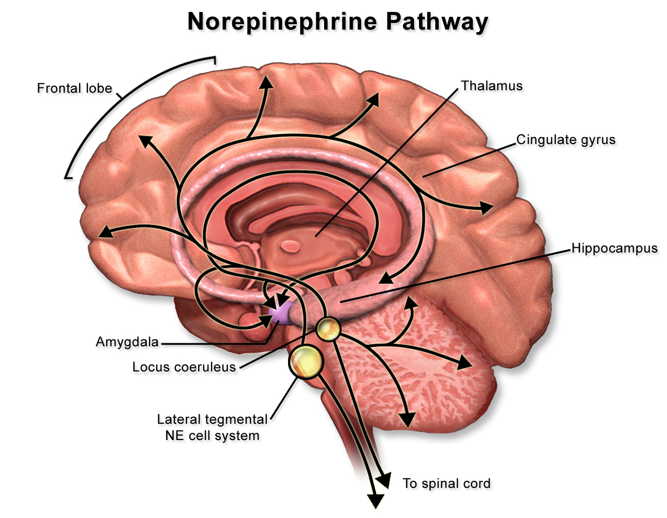 An illustration depicting norepinephrine.